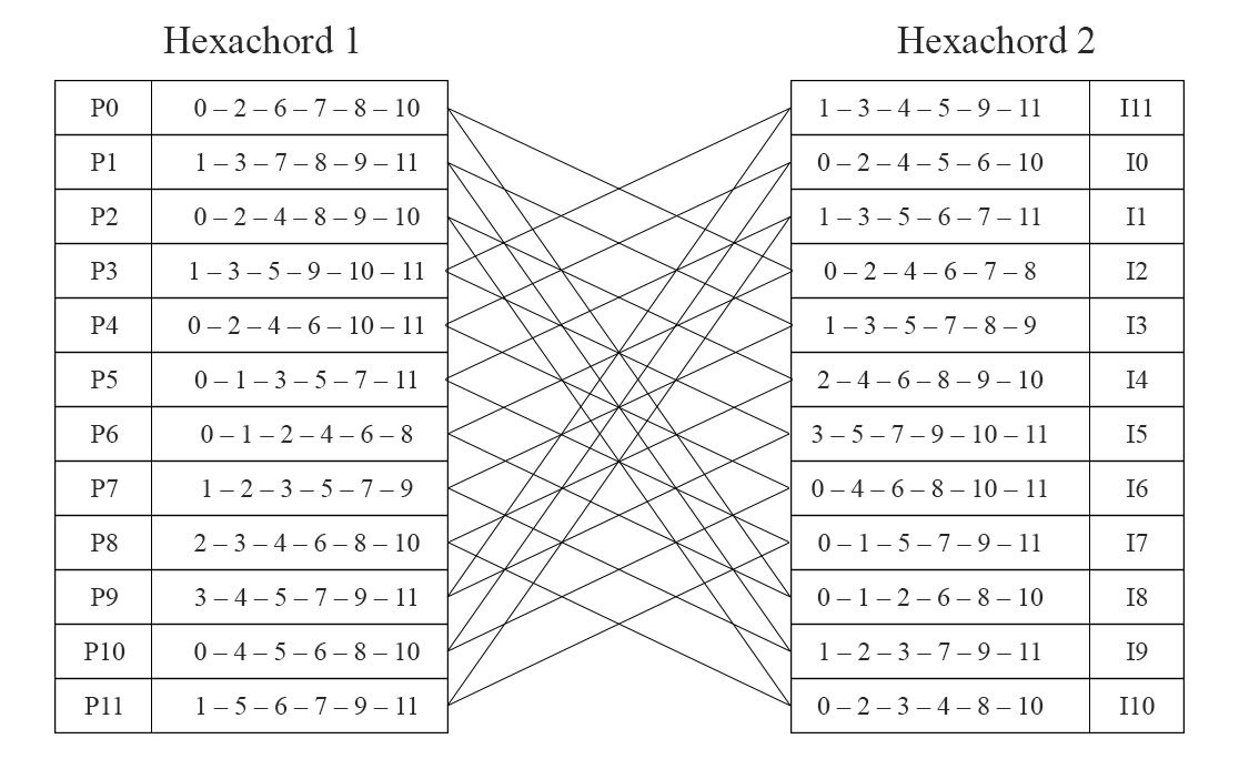 Relation between hexachords in Gerhard's Quartet 1